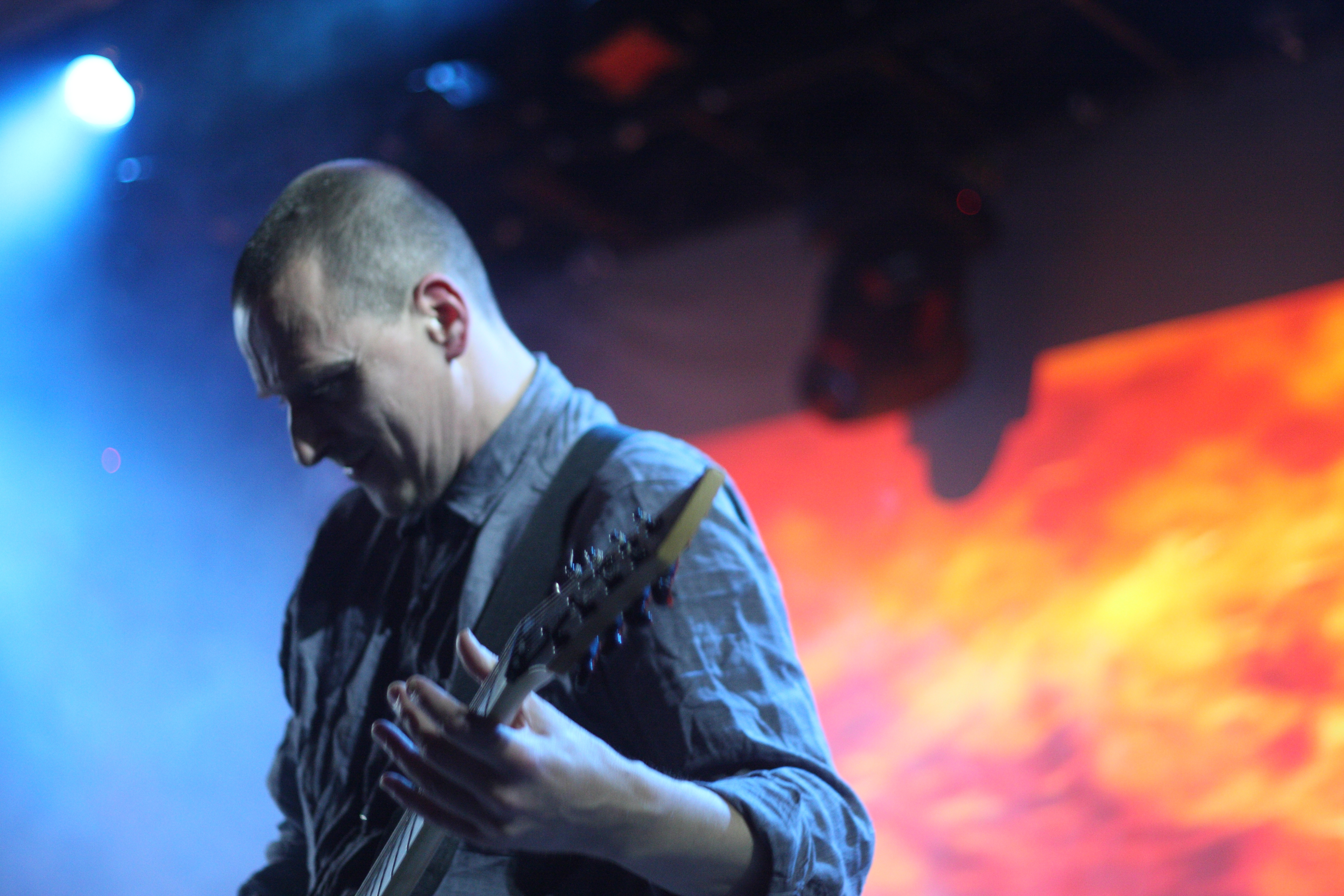 Justin Broadrick performing with Godflesh at Cold Waves IV in Chicago